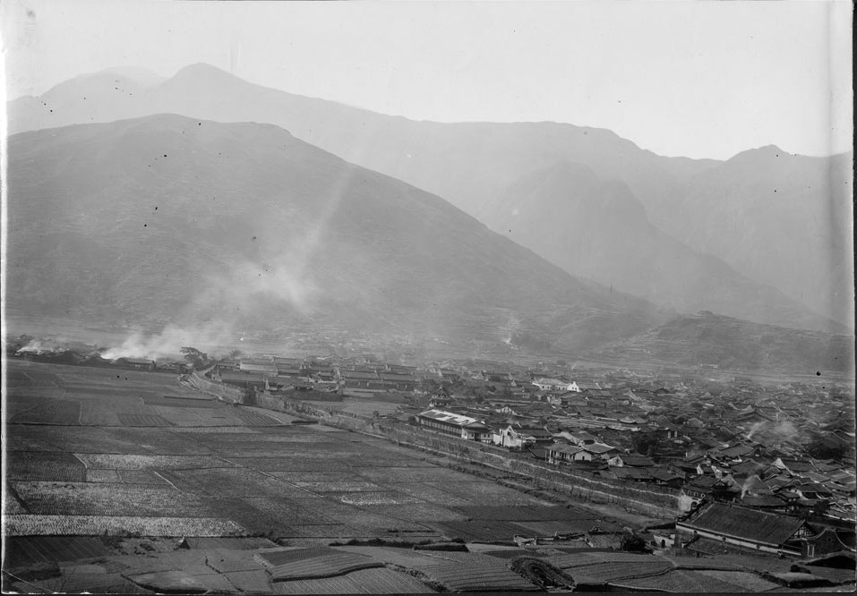 The town of Luoyuan (Lo-nguong) in Fuzhou, Fujian, in early 20th century